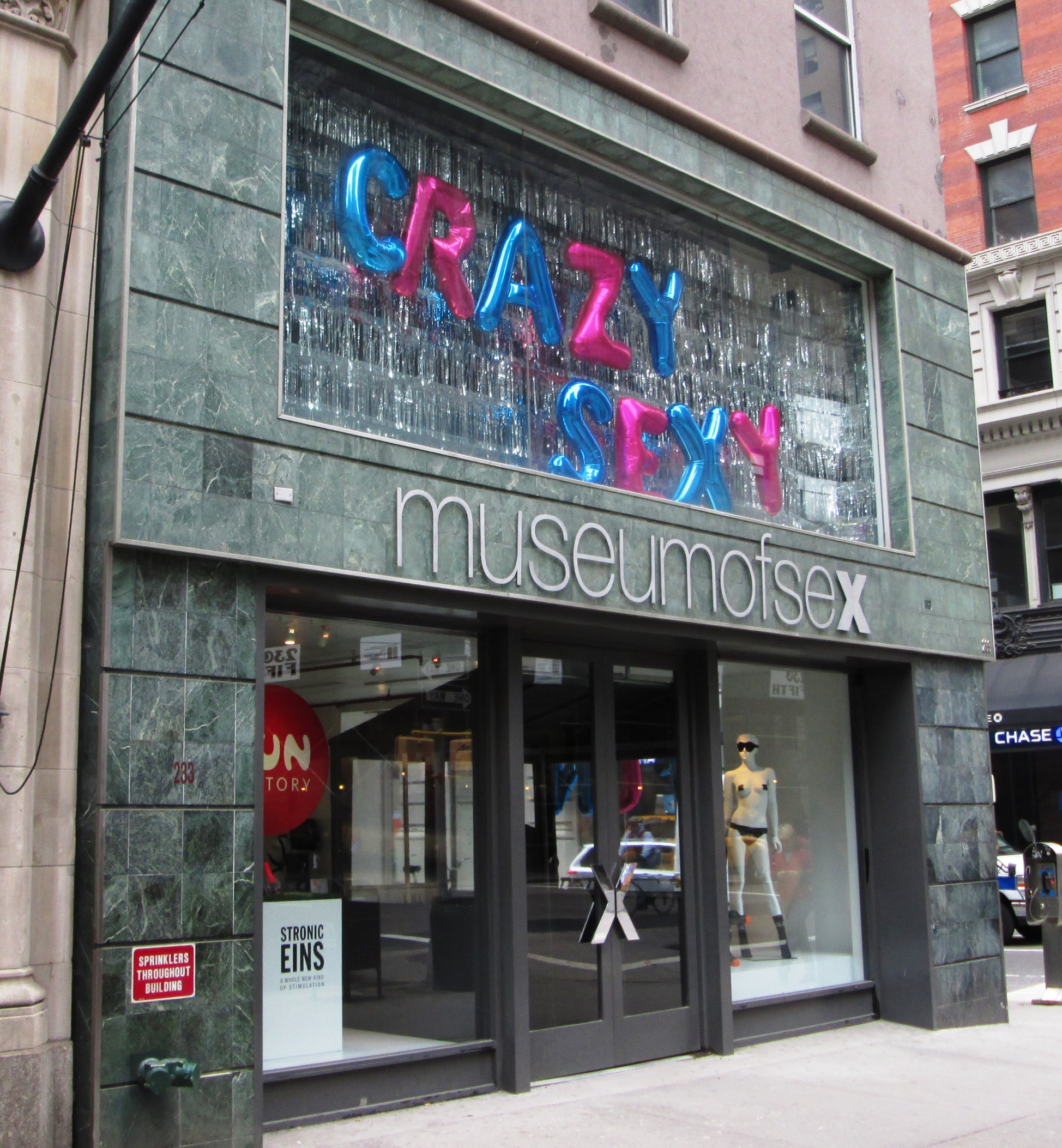 The Museum of Sex, also known as MoSex, is a sex museum located at 233 Fifth Avenue at the corner of 27th Street in Manhattan, New York City. It opened on October 5, 2002.